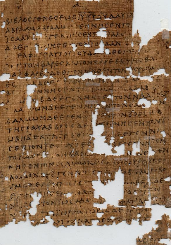 Gospel of Matthew written c. 70AD. Copy from c. 250AD. Discovered by Bernard Pyne Grenfell and Arthur Hunt in Oxyrhynchus, 1897. Contents published by them in US prior to 1923. Photo from UPenn library.